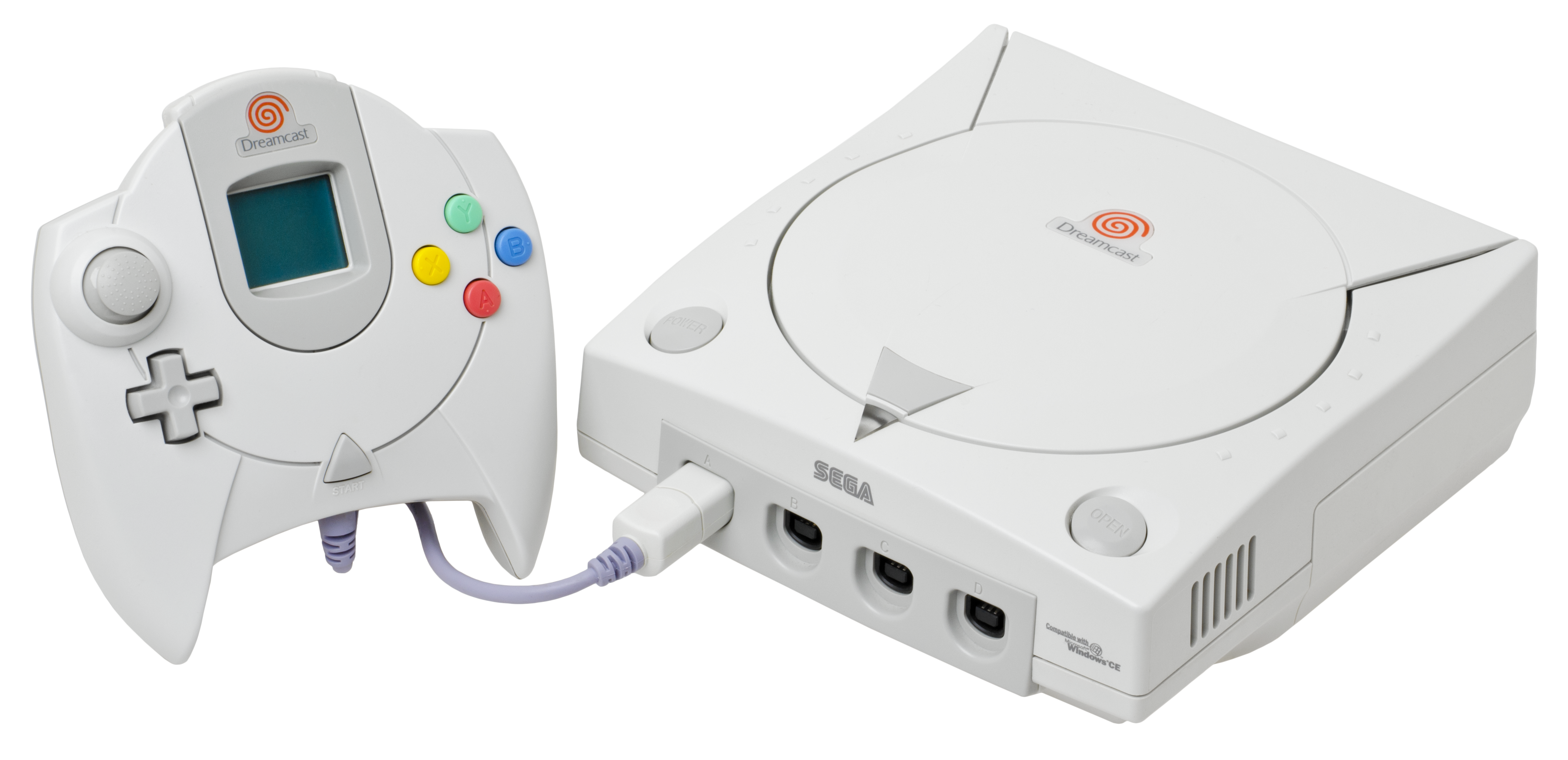 The Sega Dreamcast, a video game console released on September 9th, 1999 in North America. The last console by Sega, the Dreamcast was well received at launch but many factors like Sega's financial troubles and the extreme popularity of Sony's PlayStation 2 led to the system being discontinued in early 2001. After dropping out of manufacturing hardware, Sega focused on publishing and developing software for other gaming platforms.